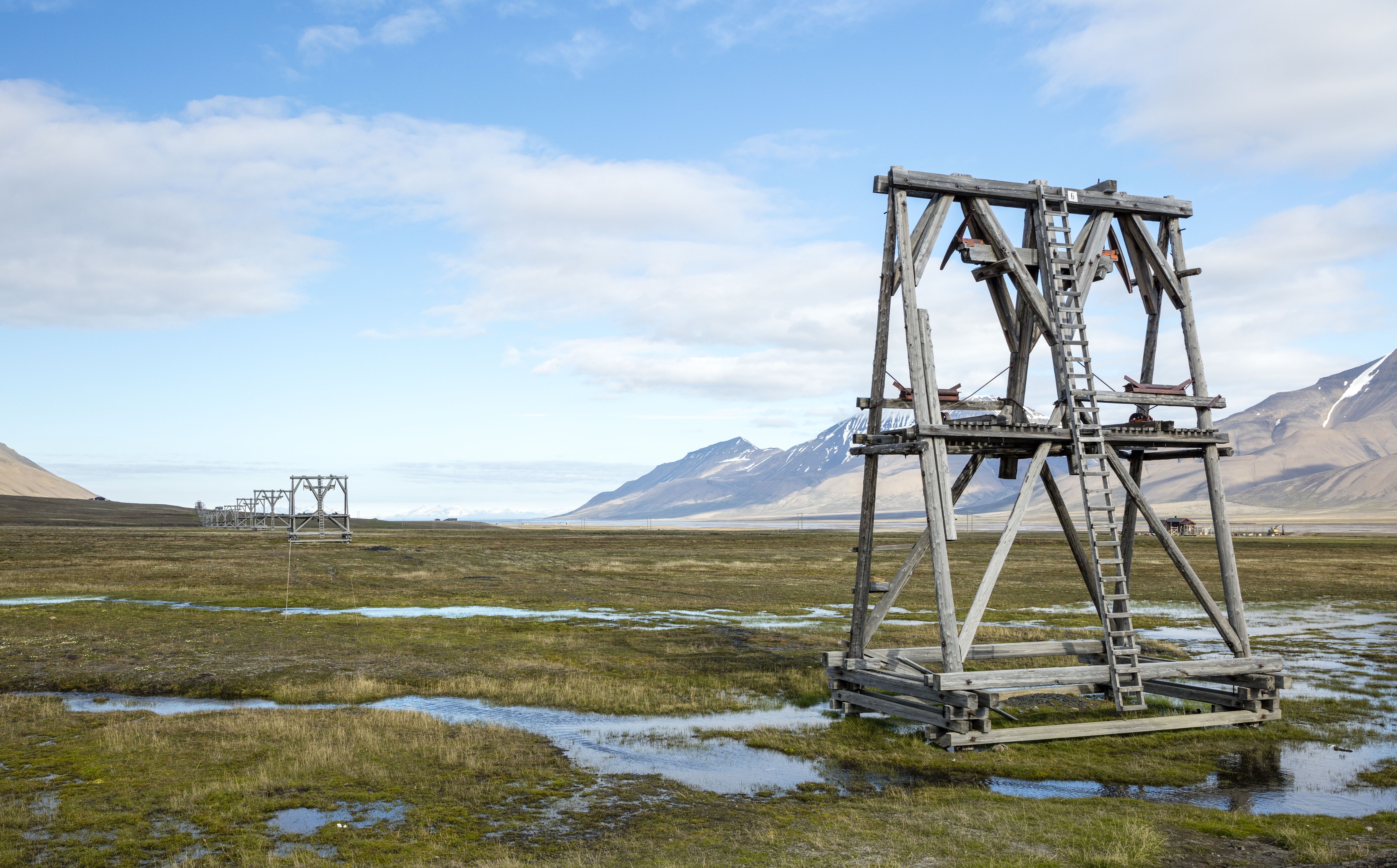 Part of the coal transportation system between Aventdalen and Longyearbyen, Svalbard.